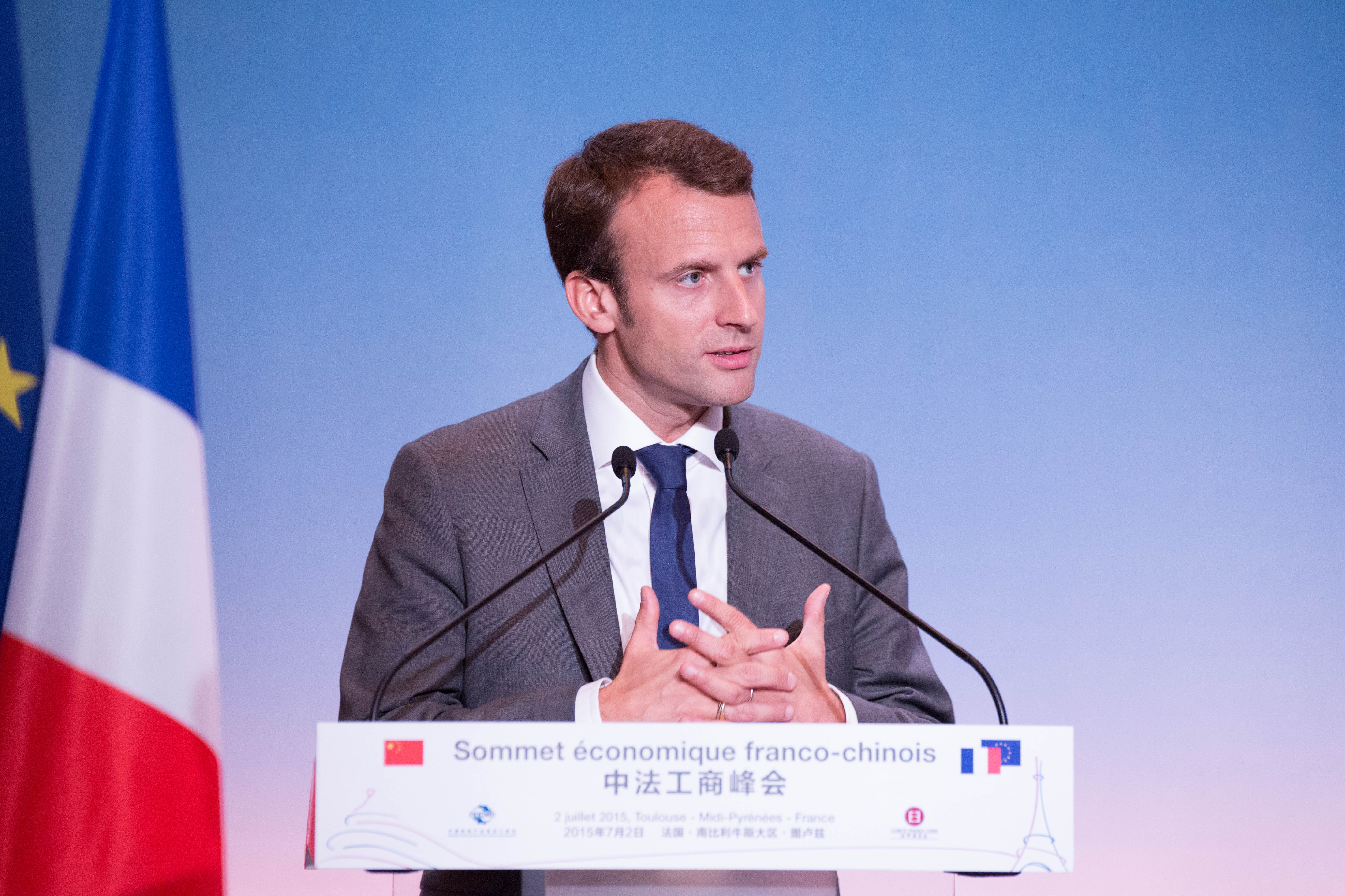 Emmanuel Macron at Sommet économique franco-chinois